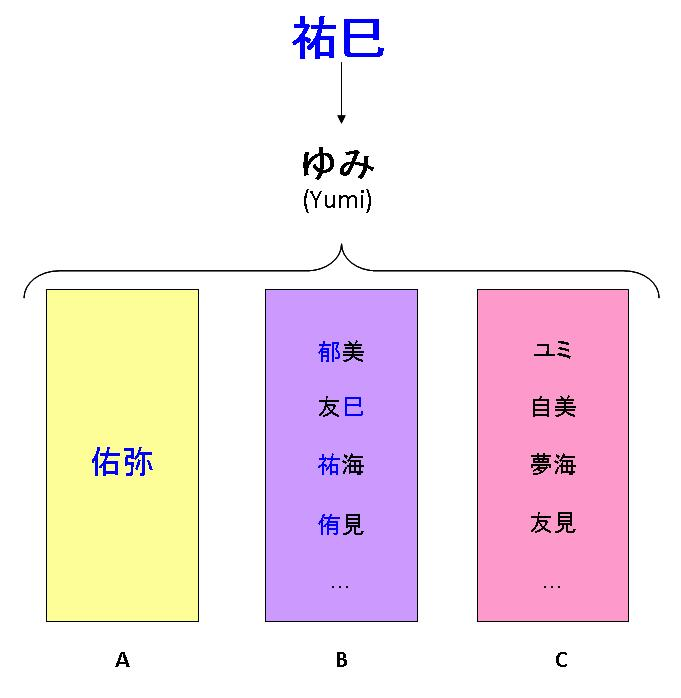 Explanation of japanese female name "Yumi" using jinmeiyou kanji characters. - The A group include the combination using only the "jinmeiyou kanji" characters. - The B group include the combination using "jinmeiyou kanji" and other characters ("jouyou kanji" and/or "kana"). - The C group include the combination without using the "jinmeiyou kanji" characters.